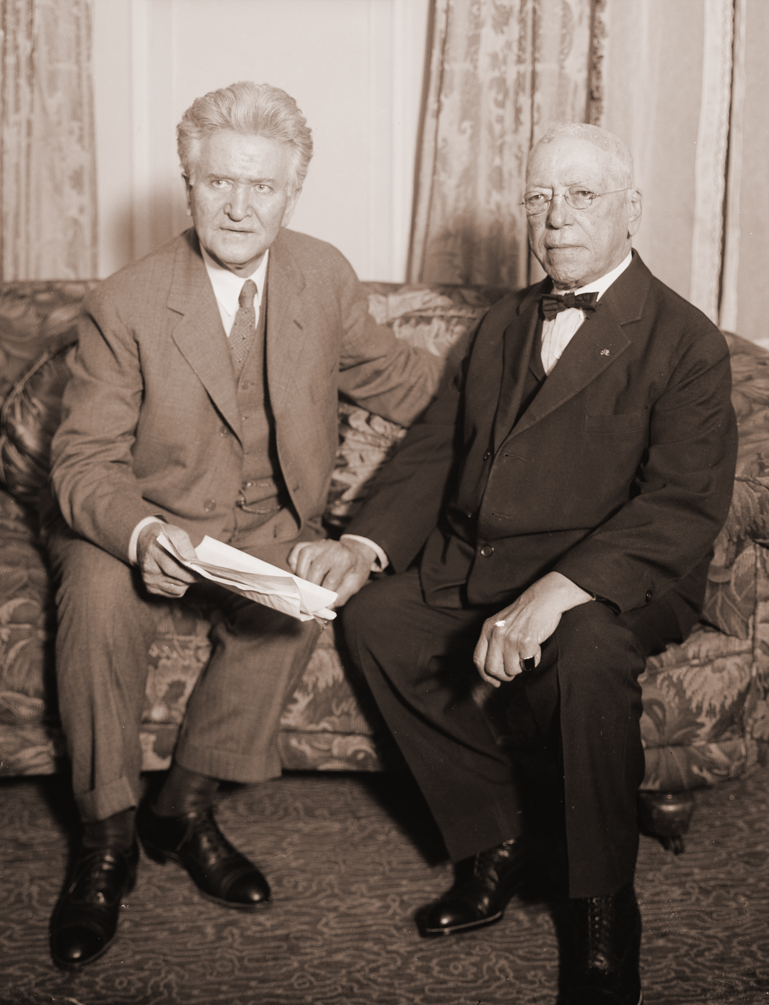 Progressive Presidential Candidate Robert M. LaFollette Sr. and Samuel Gompers.